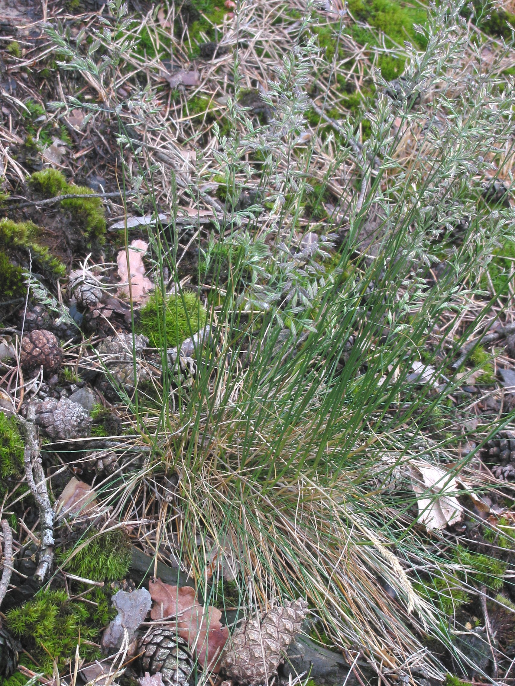 (nl: Ruig schapengras plant) Festuca ovina subsp. hirtula